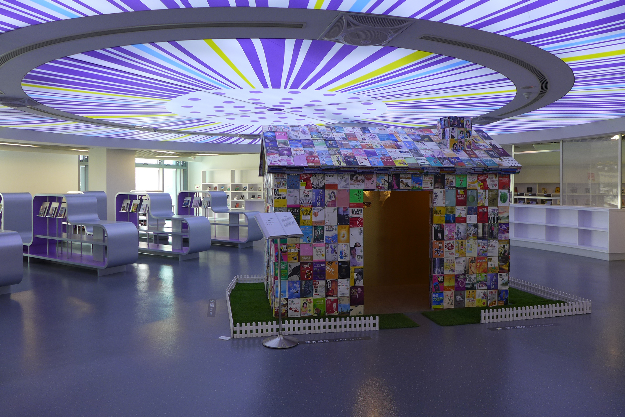 New Taipei City Main Library Level 6